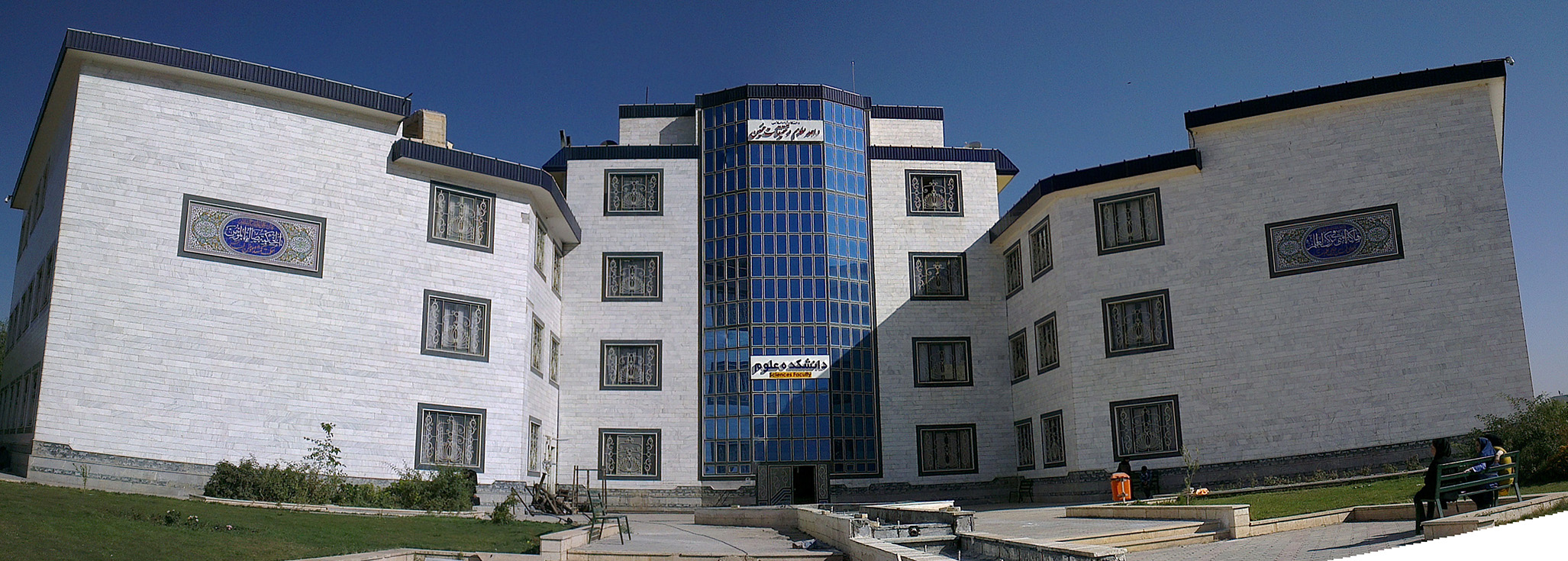 Panorama of Science faculty of Islamic Azad University of Khomein.